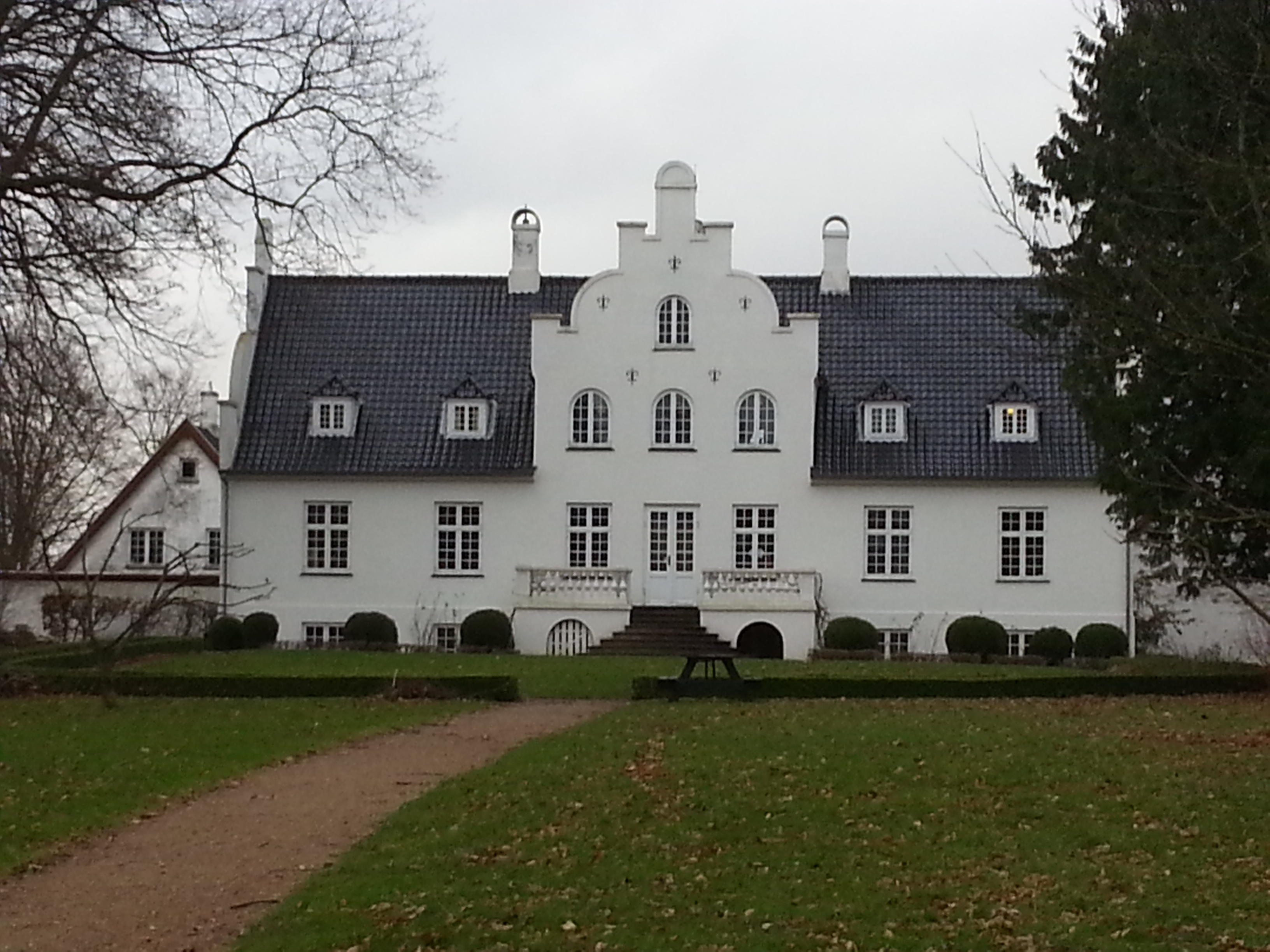 Flynderupgård 1